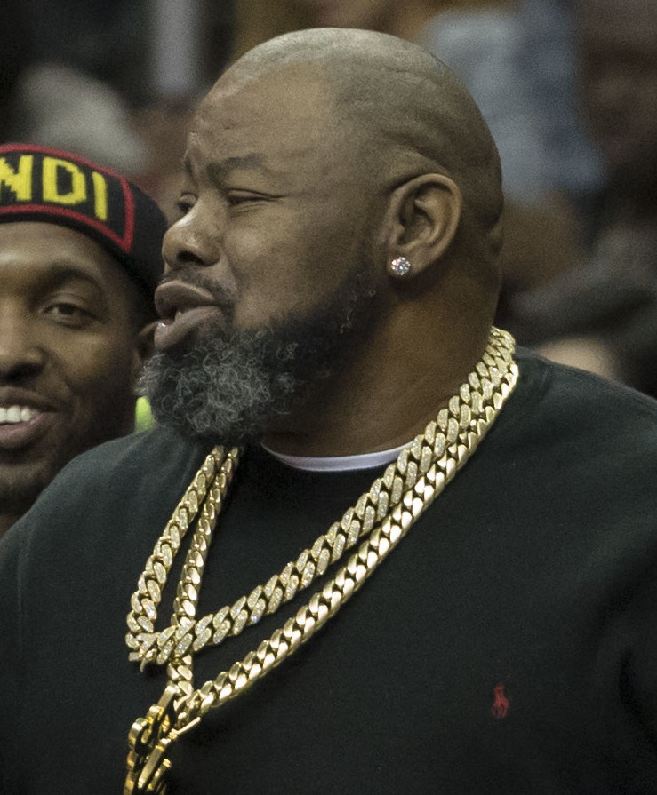 Raptors at Wizards 3/2/18